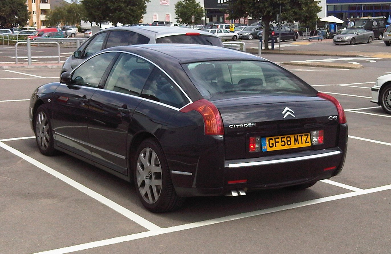 2008 / 2009 Citroën C6 - not many over here. I love the side-windows line, the brake lights: nice touches from the designers. Also the exhaust is a piece of art: simple, yet striking.